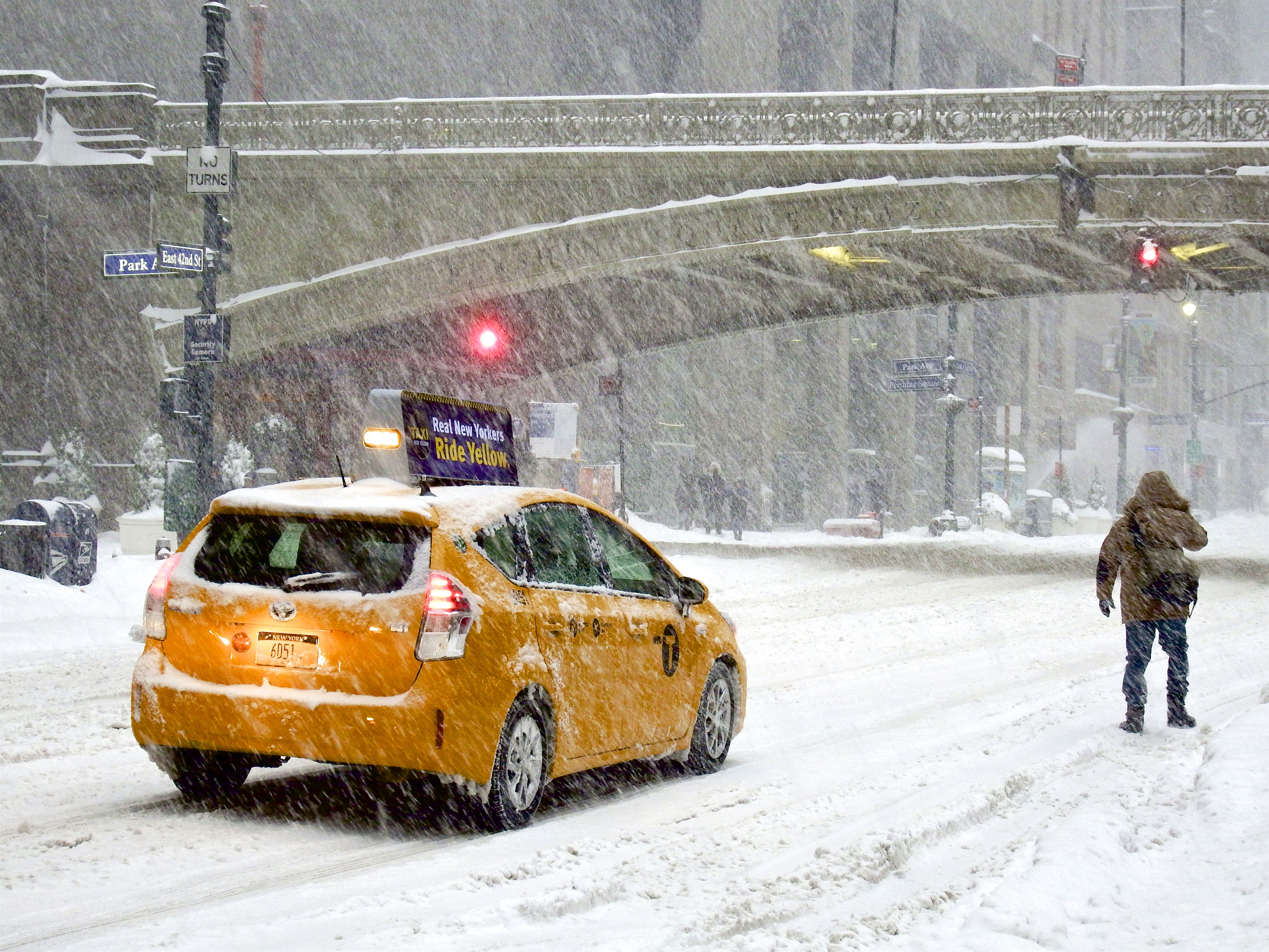 Heavy snowfall seen at Pershing Square, Manhattan, New York during Winter Storm Jonas, January 23, 2016.